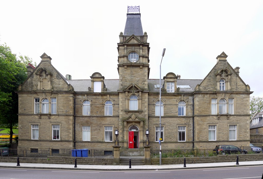 The old Council Offices, Sunderland Road, Felling. This was the administrative headquarters of Felling Urban Council until Felling was incorporated into the Metropolitan Borough of Gateshead in 1974.